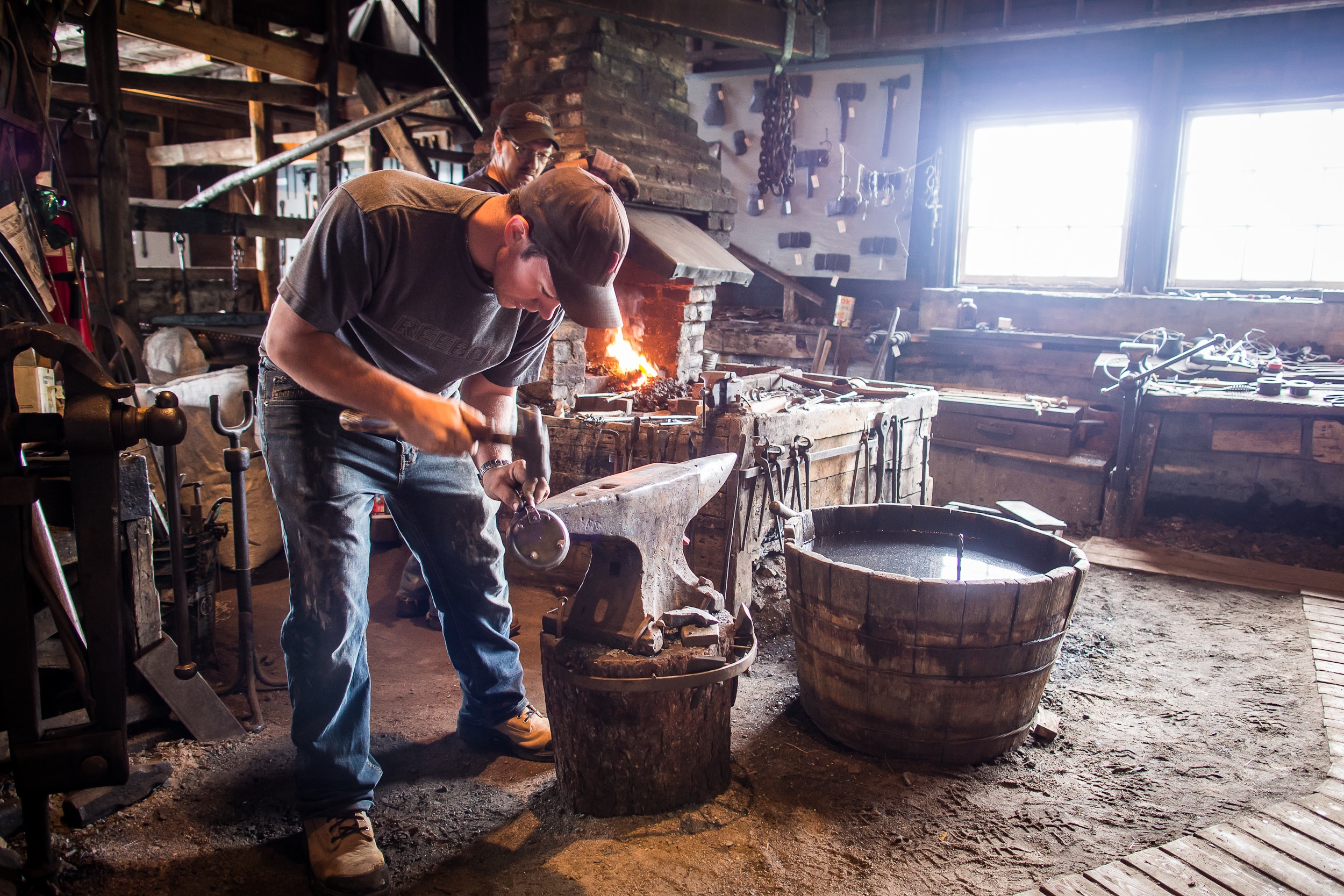 In the Green Family Forge